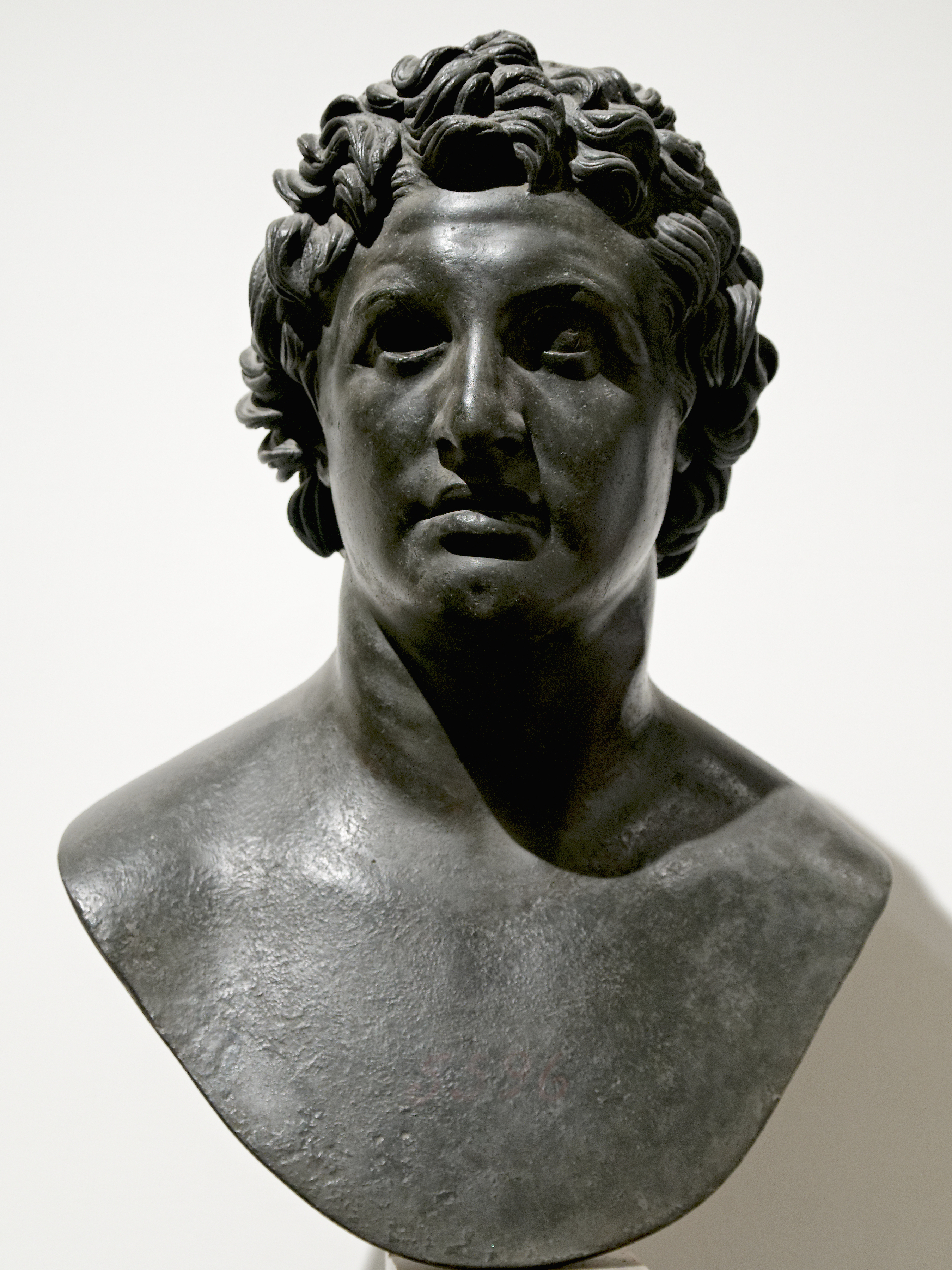 Portrait of an unidentified Hellenistic ruler, perhaps Nicomedes I of Bithynia.